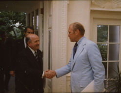 Presentation of Credentials by the Ambassador-Designate From Canada. Prior to Presentation of Credentials by the Ambassador-Designate of the Hungarian People's Republic. Prior to Presentation of Credentials by the Ambassador-Designate From The State of Kuwait. Presentation of Credentials by the Ambassador-Designate From The State of Kuwait. Prior to Presentation of Credentials by the Ambassador-Designate From The Argentine Republic. Presentation of Credentials by the Ambassador-Designate From The Argentine Republic.